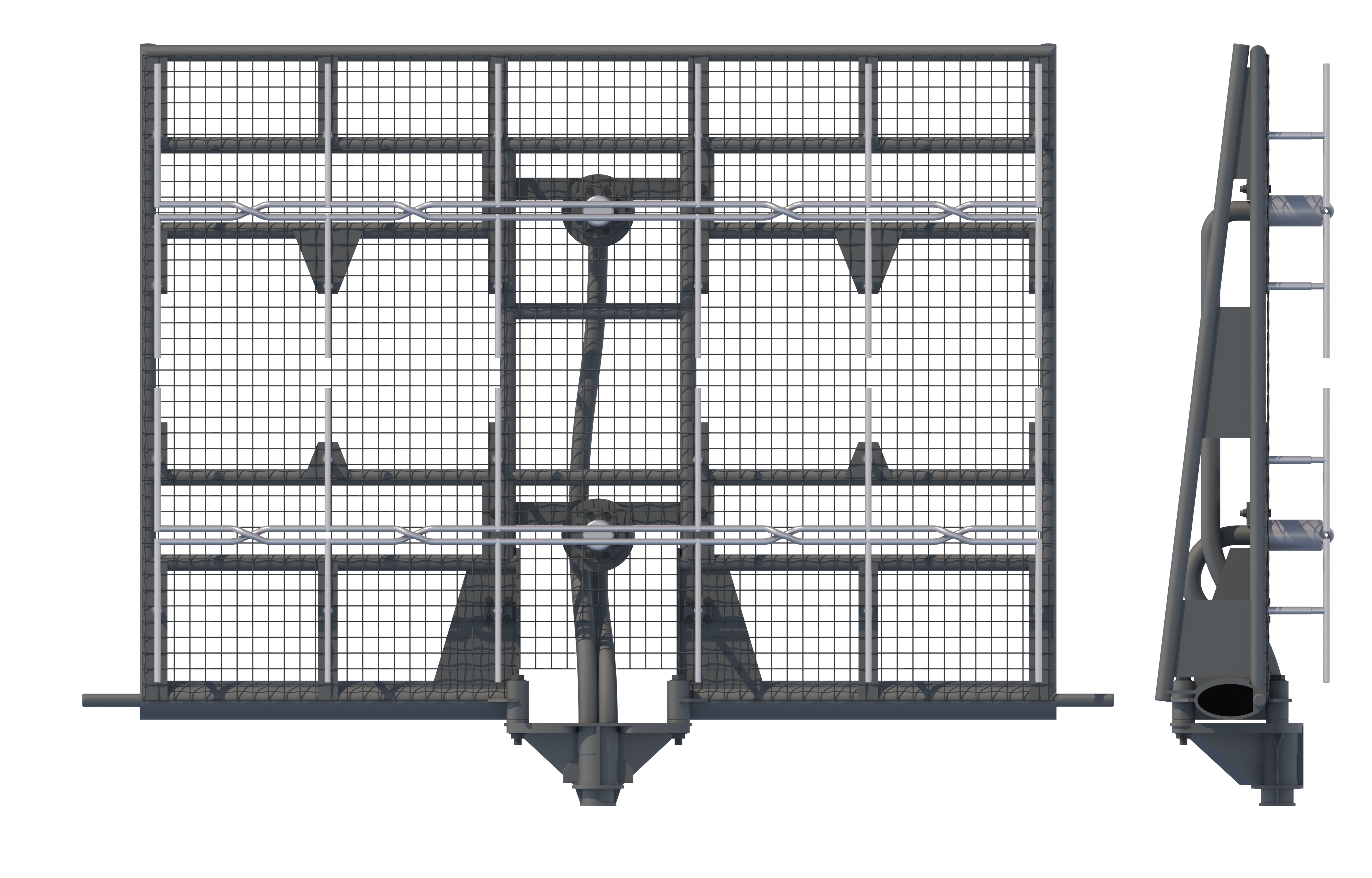 The FuMO 61 Hohentwiel antenna was 1,400 mm wide and a height of 1,000 mm, though it had an overall width of 1, 540 mm and a height of 1,022 mm. The mesh size is approximately 15 mm.